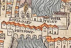 Petit Pont on the Plan de Truschet and Hoyau (1550).